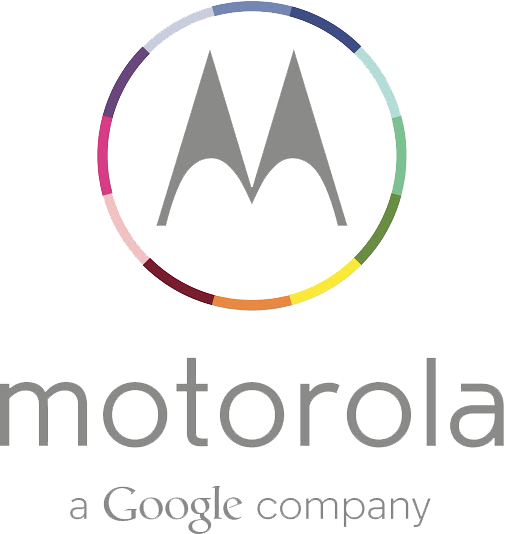 The Motorola Mobility logo.